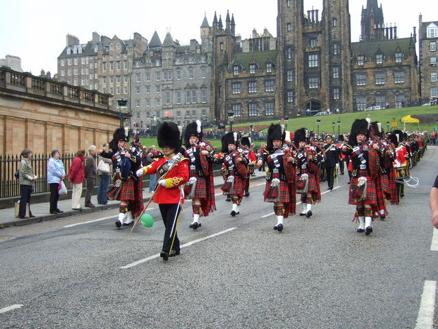 Military pipers marching down the Mound on Armed Forces Day The procession was led by the Royal Scots Dragoon Guards Pipes and Drums.